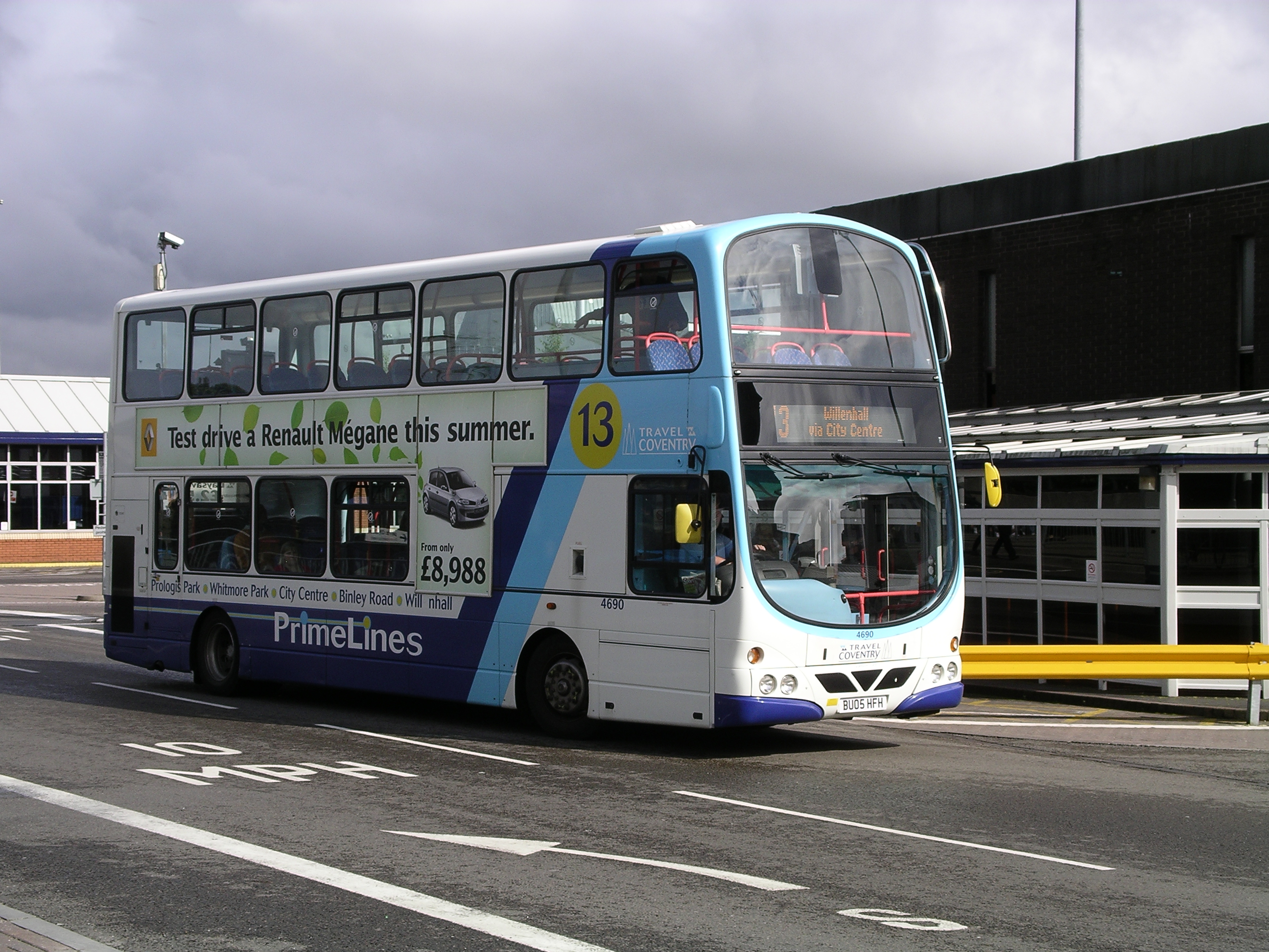 Travel Coventry 4690 (BU05 HFH), a Volvo B7TL/Wright Eclipse Gemini, in Pool Meadow Bus Station, Coventry, on route 13.